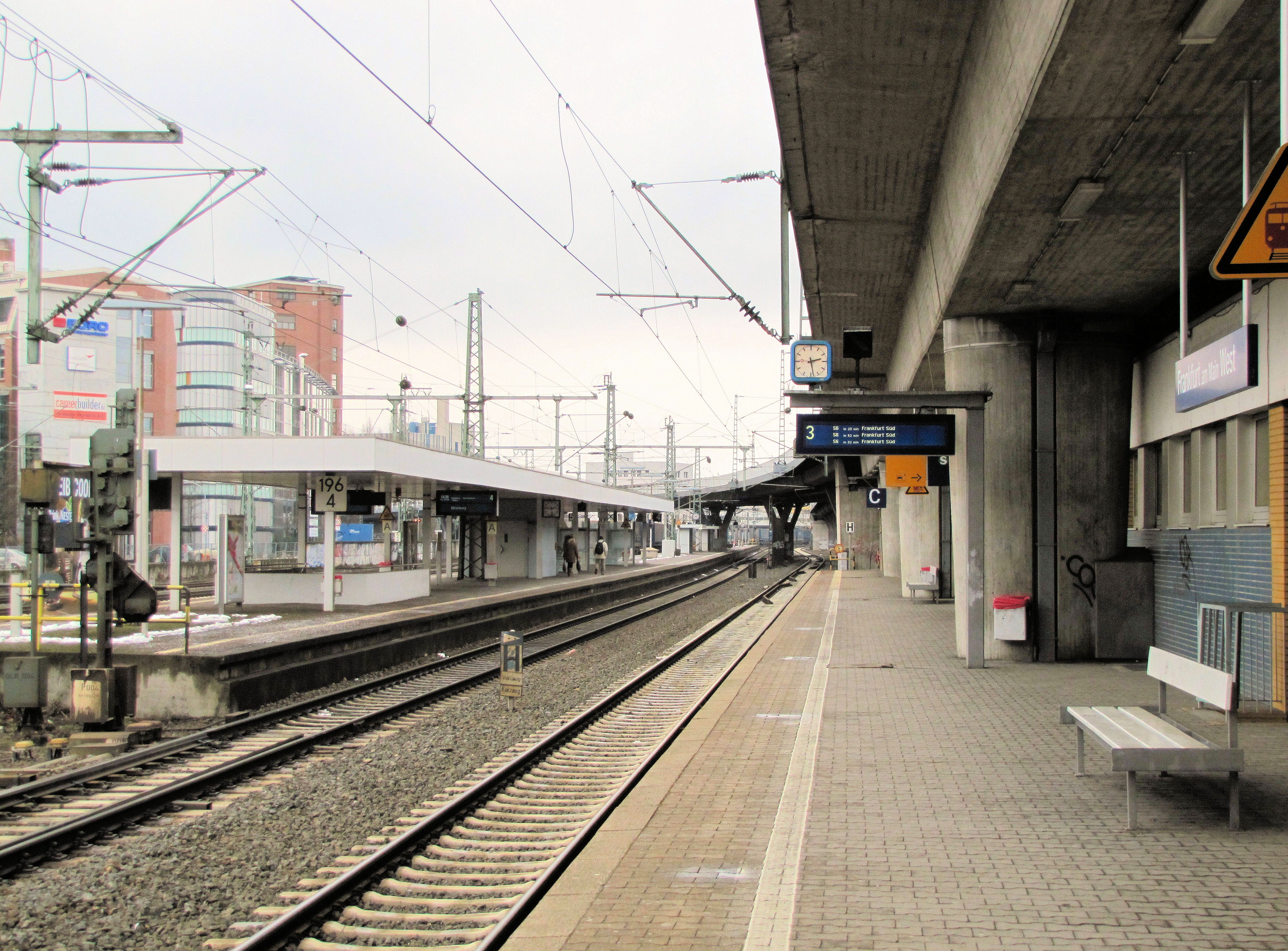 "Bahnhof Frankfurt (Main) West" an regional railway and S-Bahn station, at Frankfurt-Bockenheim, Germany, platforms for "S 6" (view in direction "Friedberg").